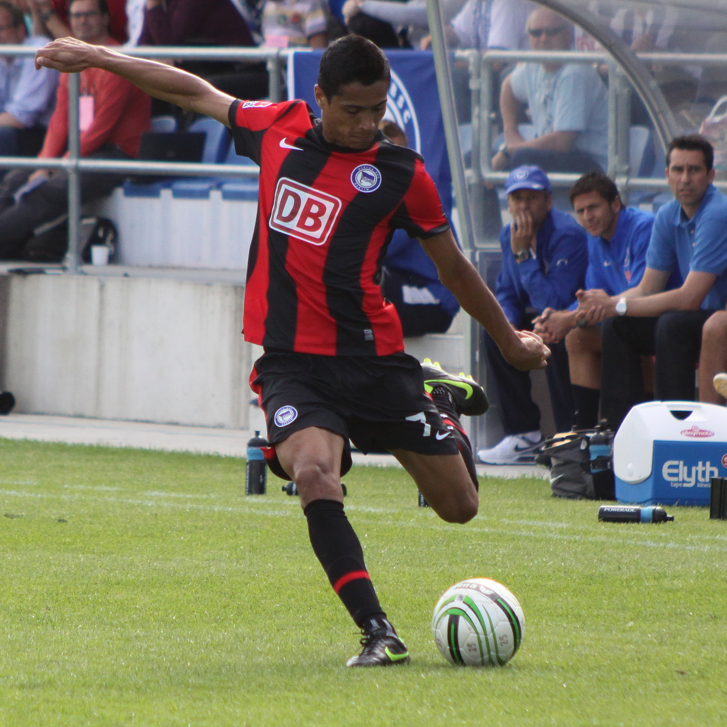 Cícero Santos – Hertha BSC Berlin (3)